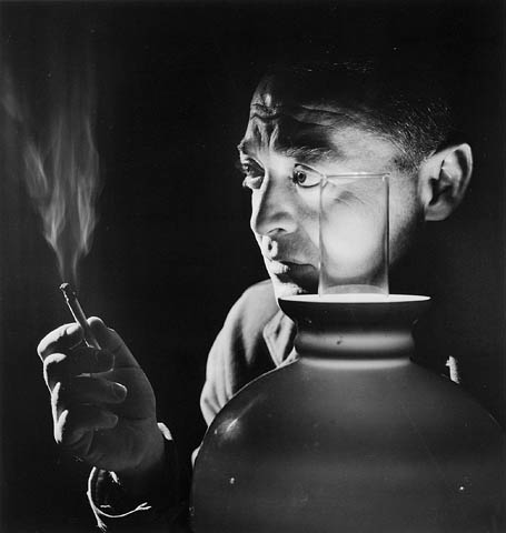 Peter Lorre, Hungarian-American actor, 1946